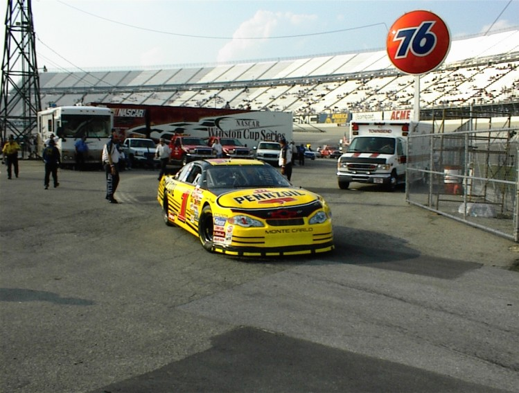 Kenny Wallace, subbing for Steve Park, drives the No. 1 Chevrolet through the garage at Dover Downs International Speedway during practice for the 2001 MBNA Cal Ripken, Jr. 400.